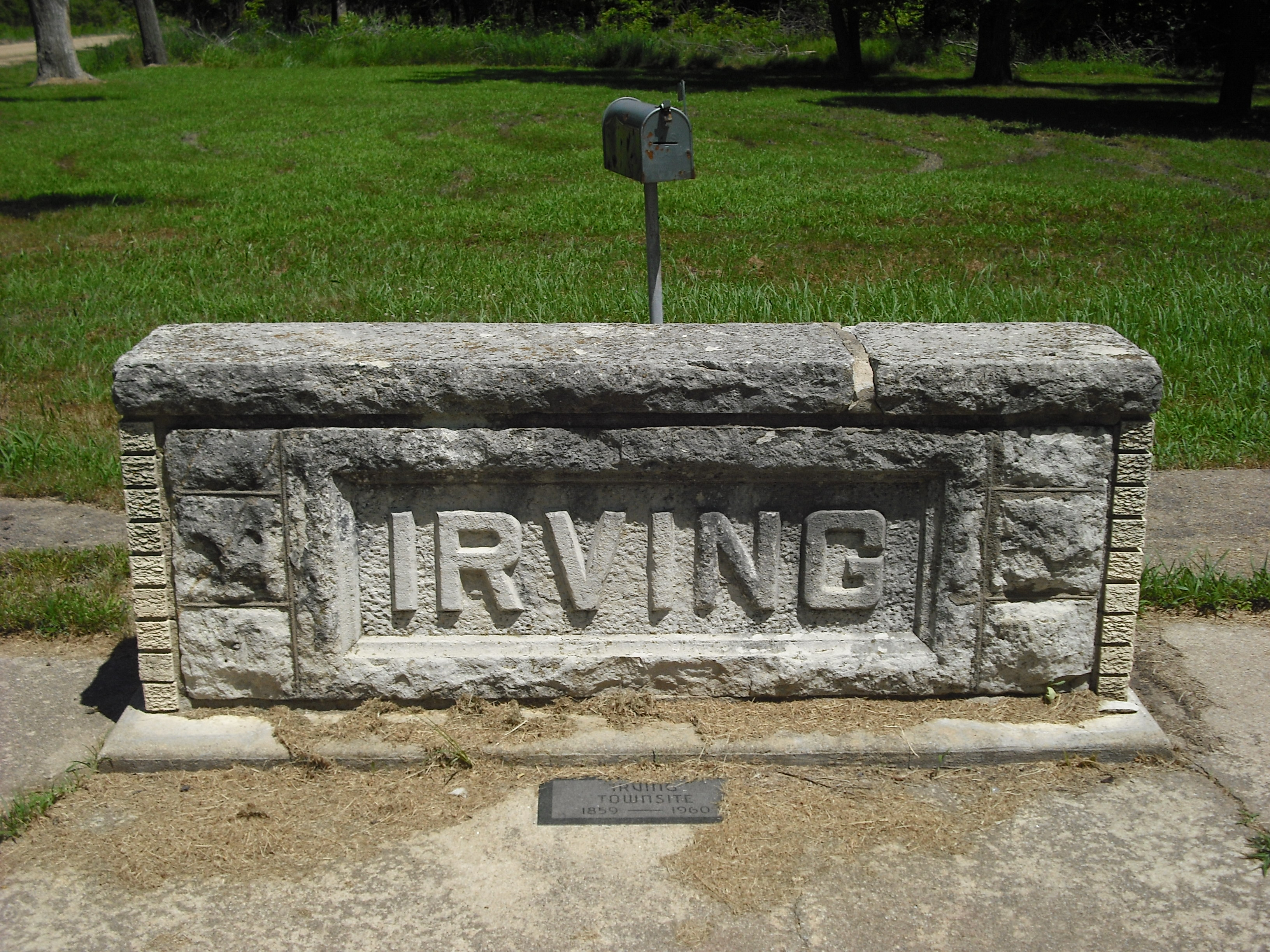 The stone marker marking the townsite of Irving, Kansas which was abandoned and torn down during construction of Tuttle Creek Lake.